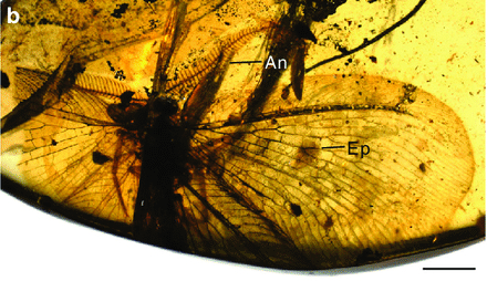 Cretanallachiinae from late Cretaceous Burmese amber. b Cretogramma engeli, holotype NIGP164481, male, habitus. An antennae, Eye compound eye, Ep eyespot, Ga galea, Lbp labial palp, Lg ligula, Mxp maxillary palp. Scale bar, 2 mm